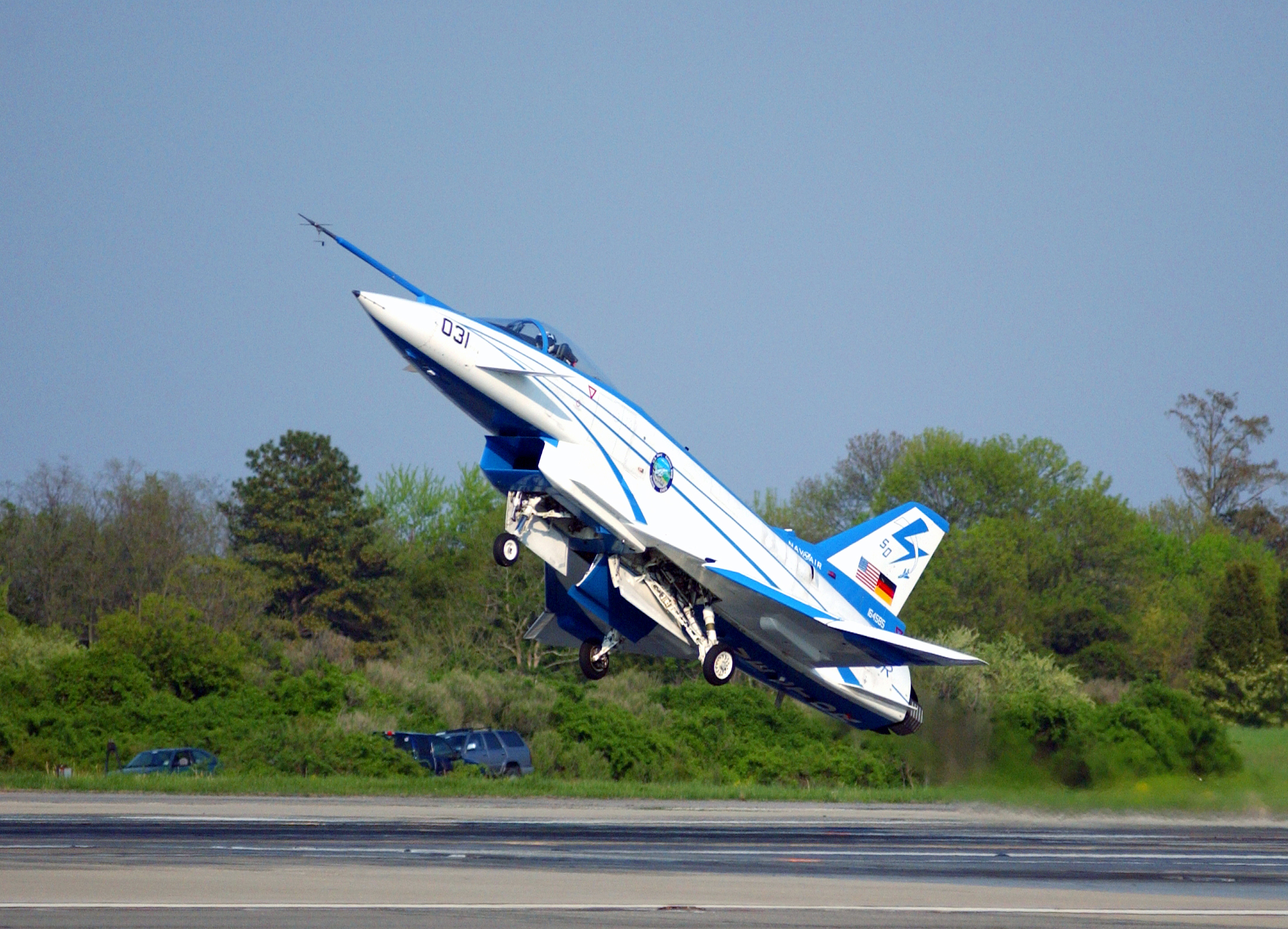 Naval Air Station Patuxent River, Md. (Apr. 29, 2003) -- The X-31 VECTOR (Vectoring, Extremely Short Takeoff and Landing, Control and Tailless Operation Research) approaches the ground at a 24 degree angle of attack during an automated extremely short takeoff and landing (ESTOL) approach that concluded the last flight of the thrust-vectored, experimental jet. U.S. Navy photo by James Darcy. (RELEASED)